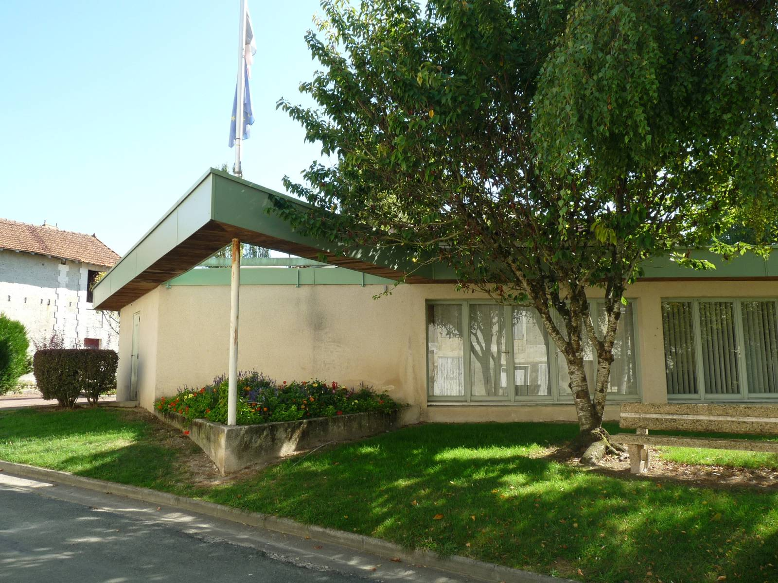 town hall of Champagne-et-Fontaine, Dordogne, SW France